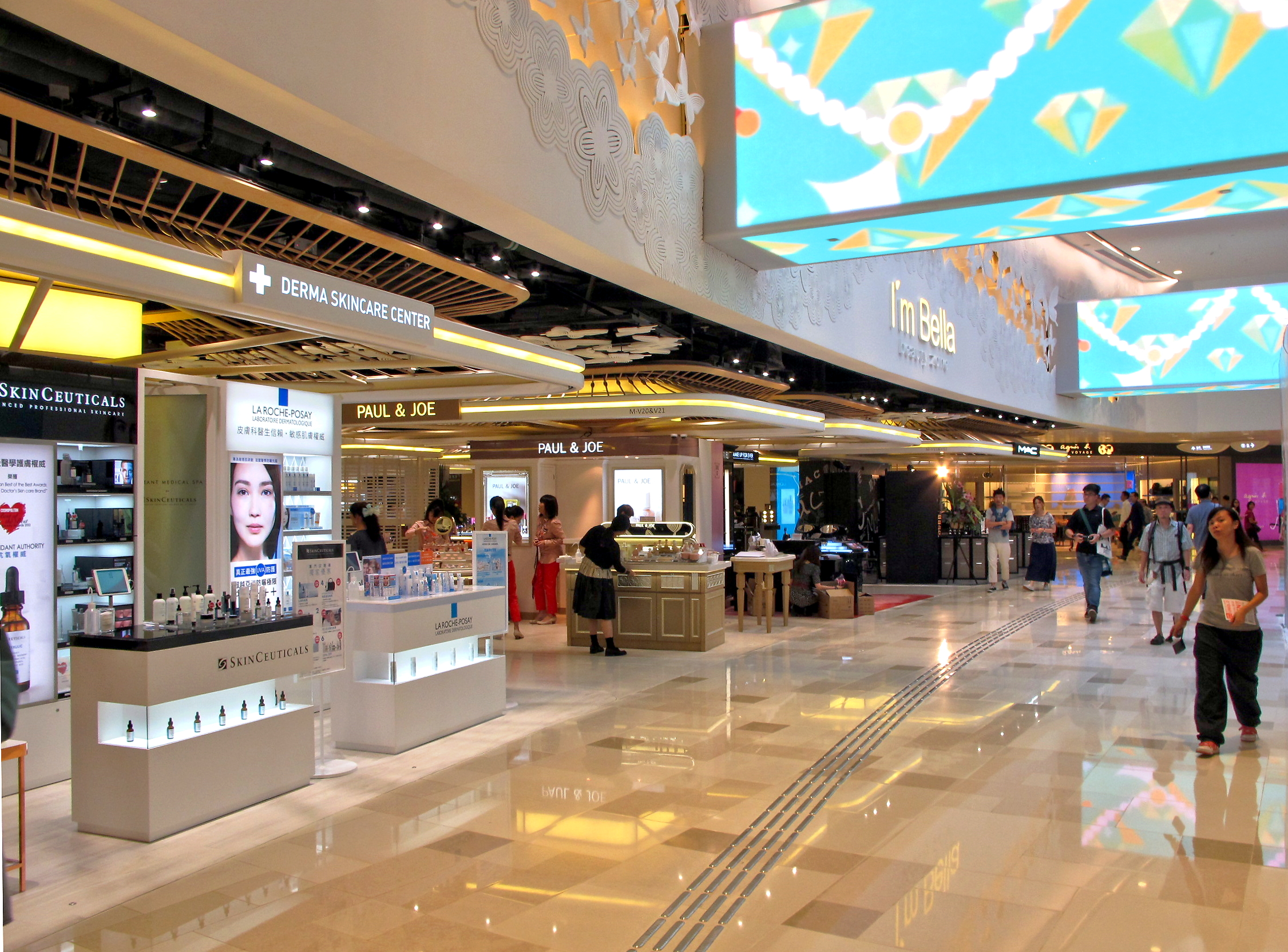 V City I'm Bella Beauty Zone